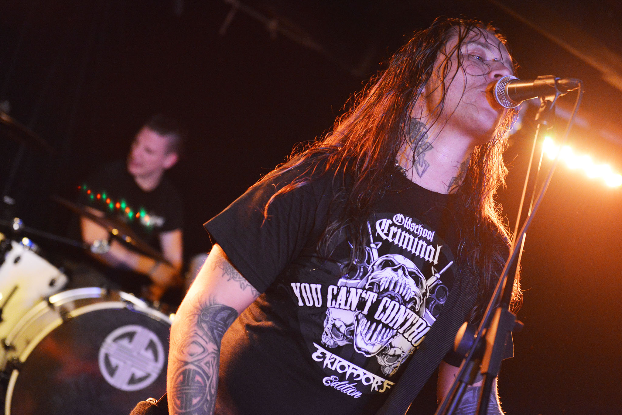 Ektomorf. Hungarian metal band concert in Ostrava